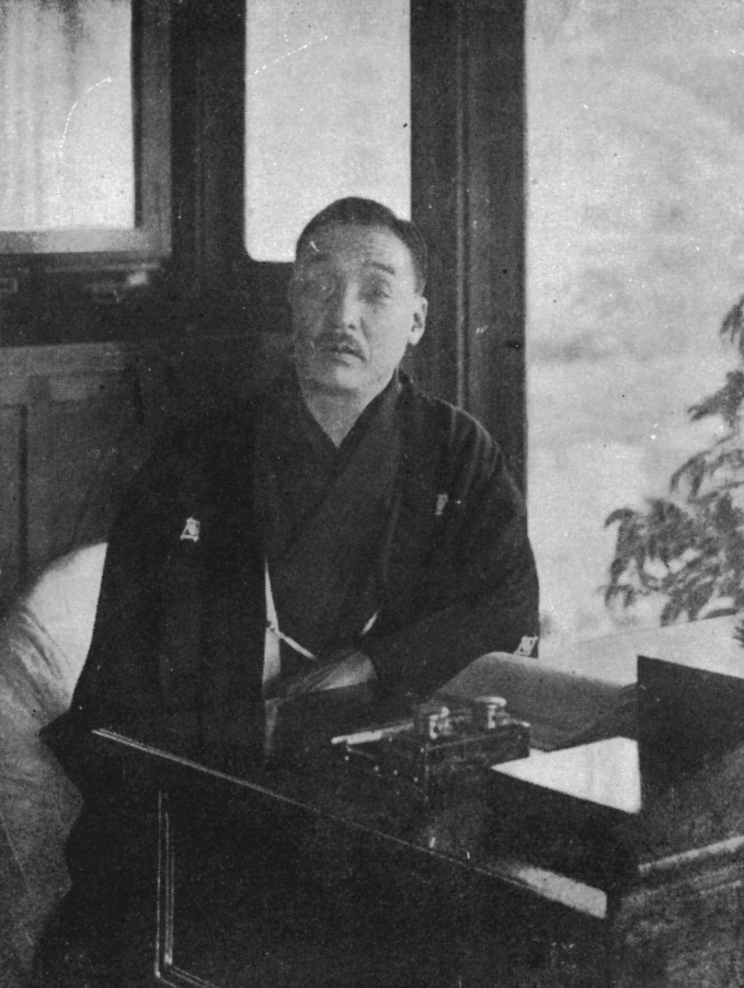 Jujiro Matsuda circa 1921